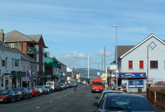 Holywood Town Centre. The white pole is the Holywood Maypole, still used for dancing at the annual May Day fair. Beyond, is the railway bridge carrying the Belfast to Bangor line, Belfast Lough and, on the horizon, Carnmoney Hill, County Antrim.